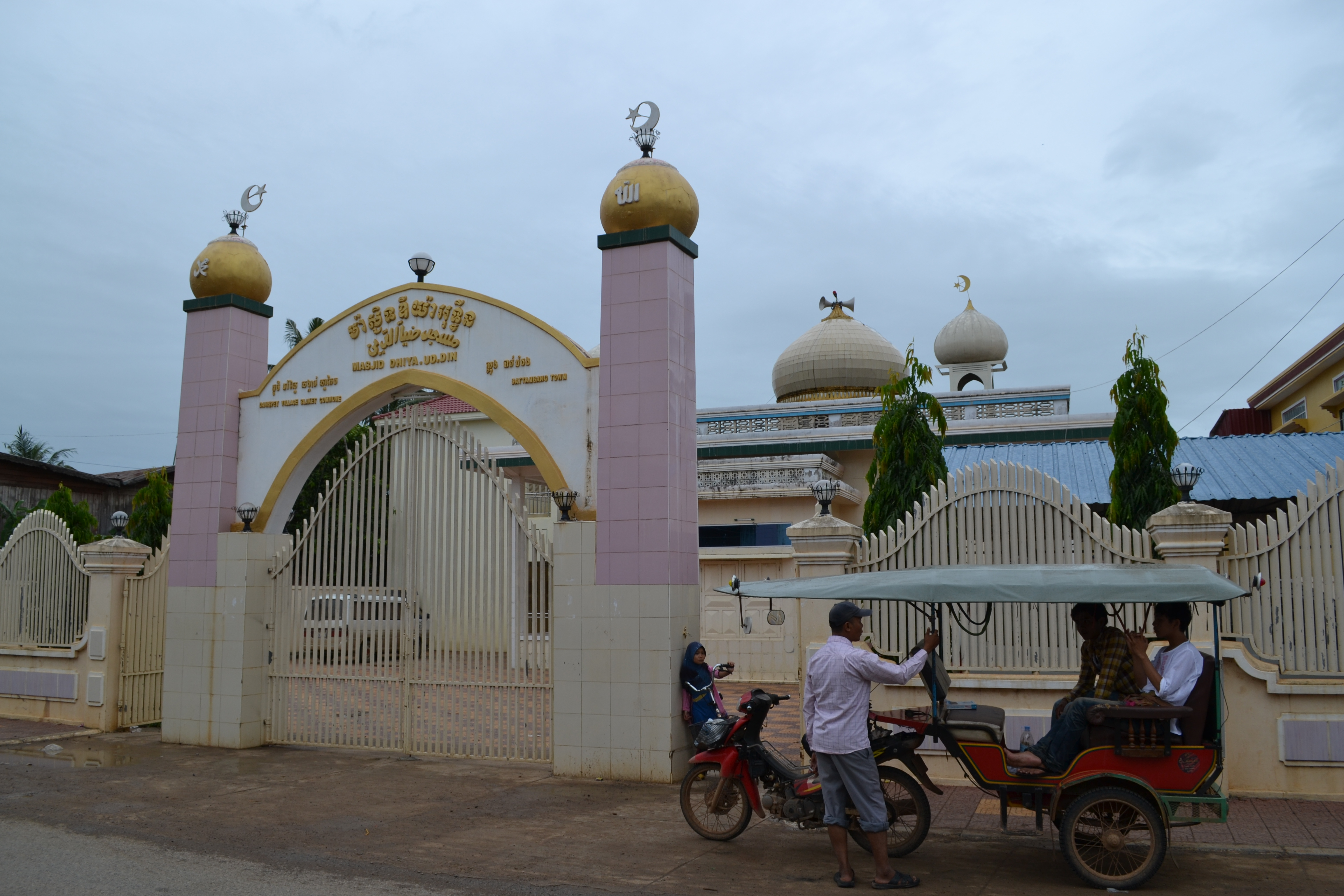 Entrance of the Dhiya-Ud-Din mosque in Battambang, Cambodia